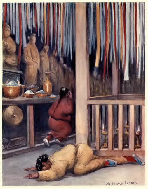 Worshippers circumambulating the interior enclosure lying full length.